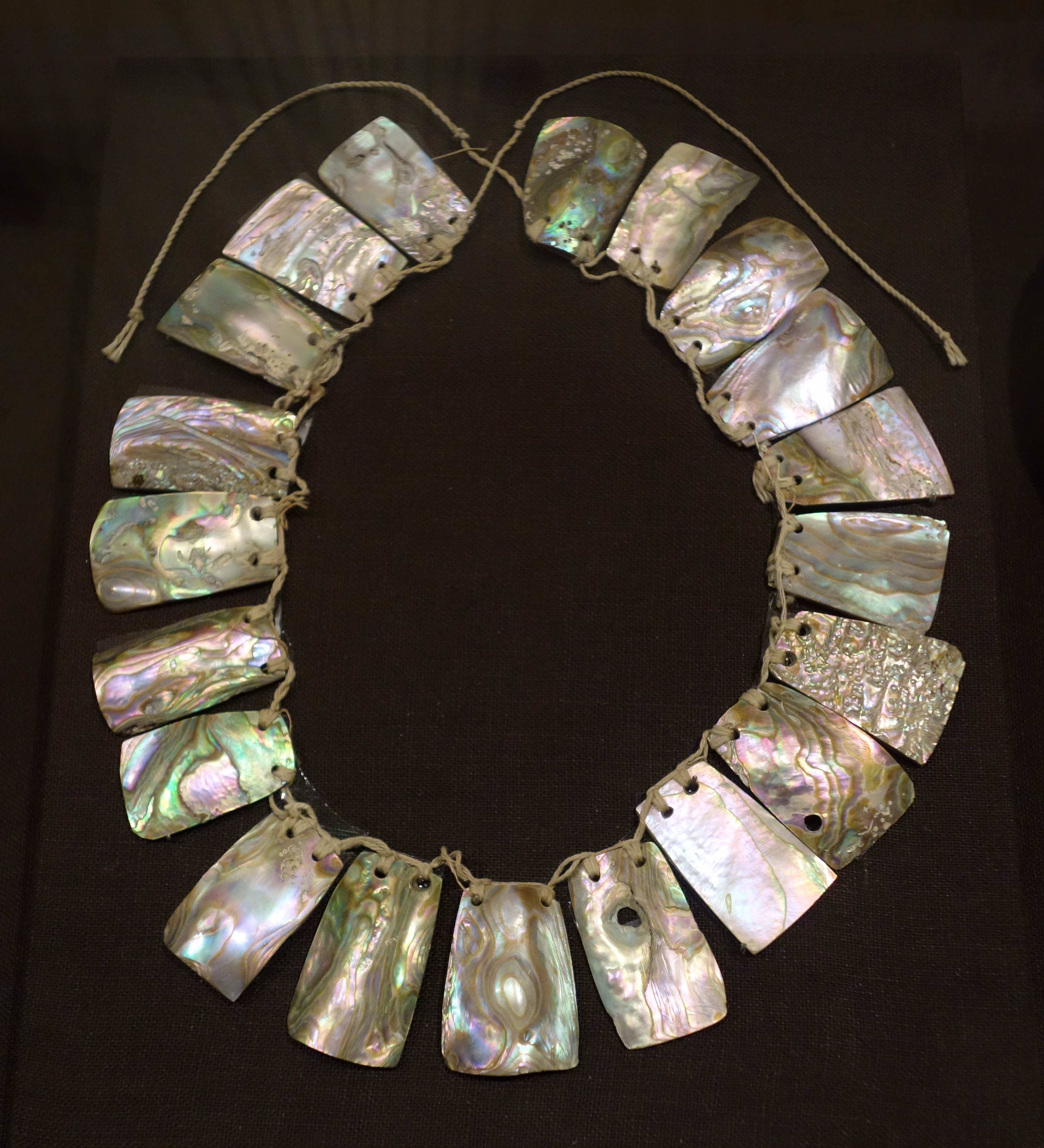 Exhibit in the Oakland Museum of California, Oakland, California, USA. This work is in the public domain because its maker died more than 70 years ago.